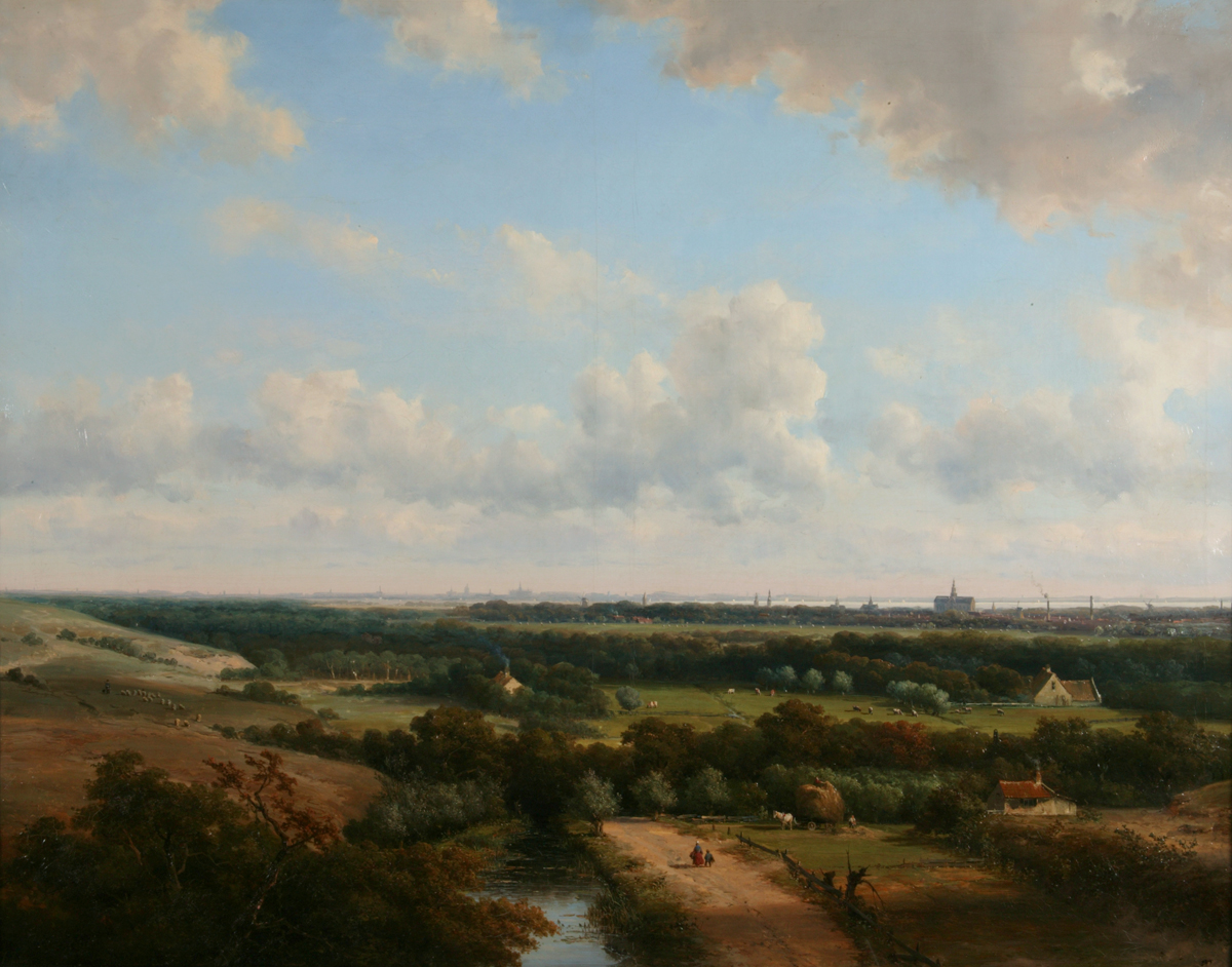 Haarlem vanaf de duinen